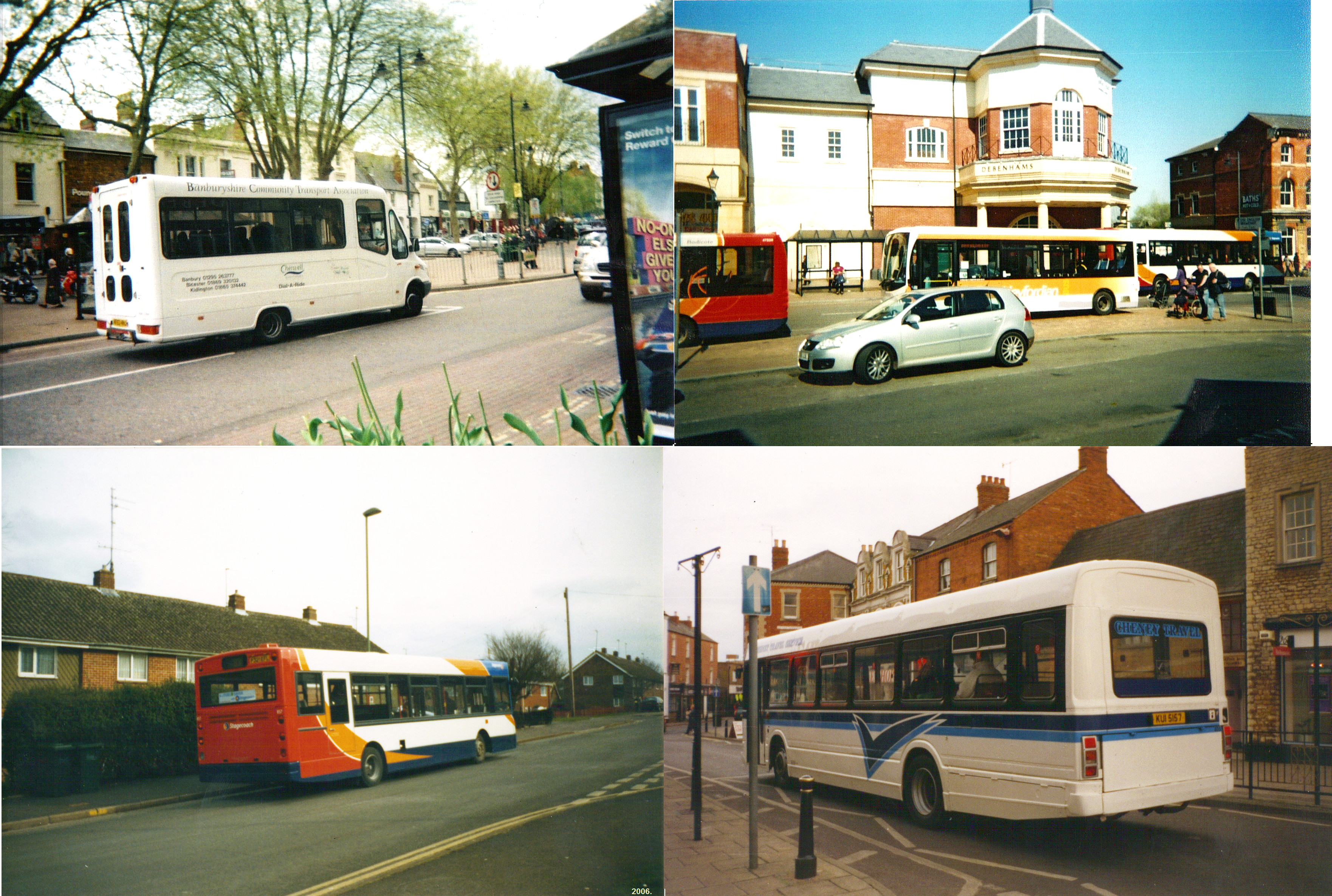 I took these images myself of a former Cheney bus, Heyfordian bus, Stagecoach bus and B.C.T.A. bus in Banbury, UK.